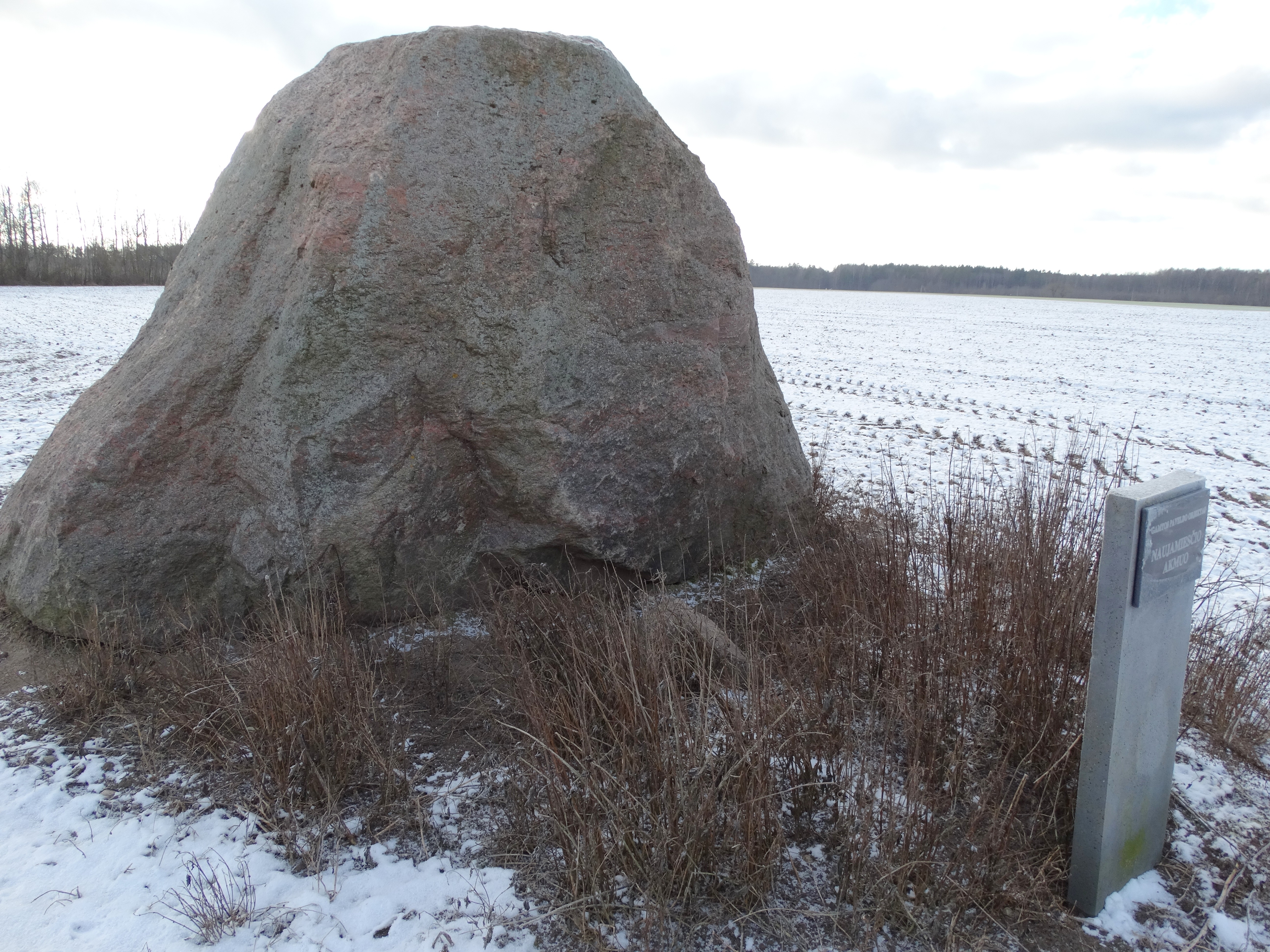 Naujamiestis Stone, Panevėžys District, Lithuania